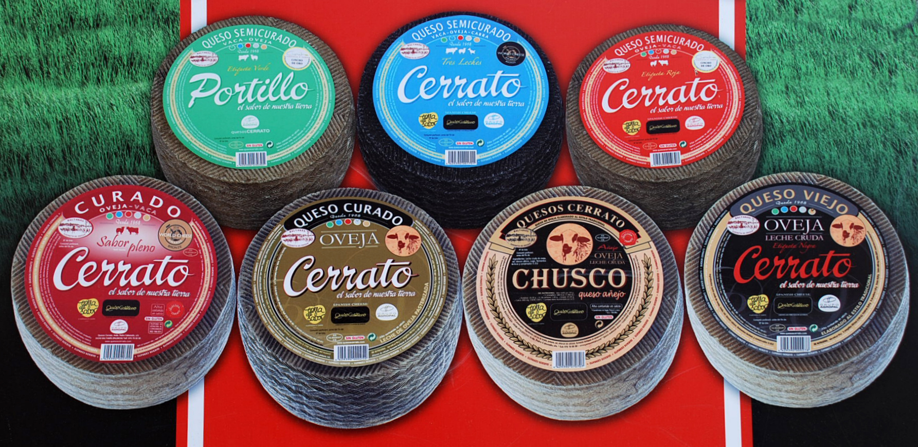 Cheese of Palentinian Cerrato (Baltanás, Palencia, Castile and León).